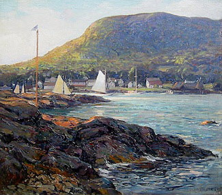 Seascape painting